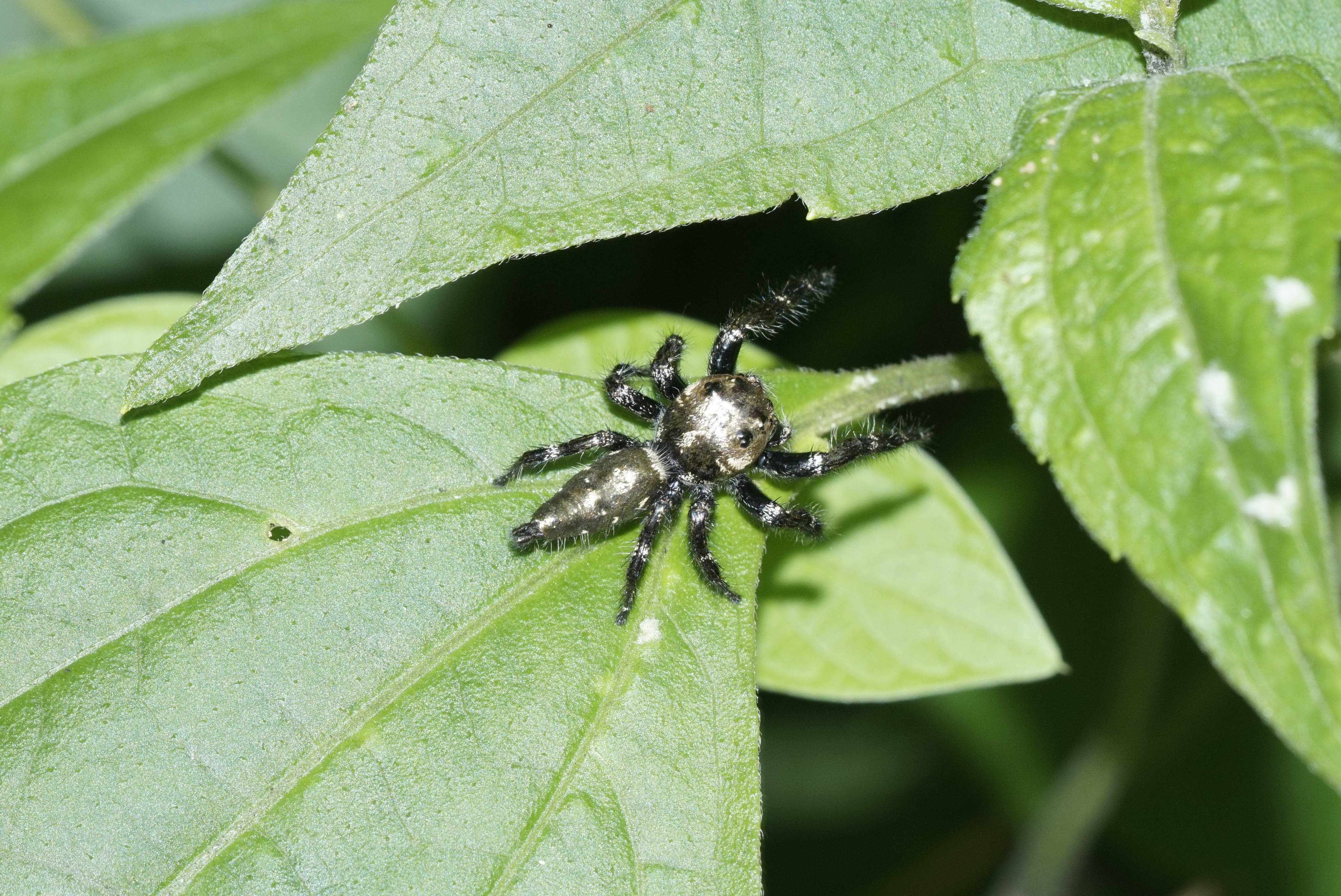 Spider